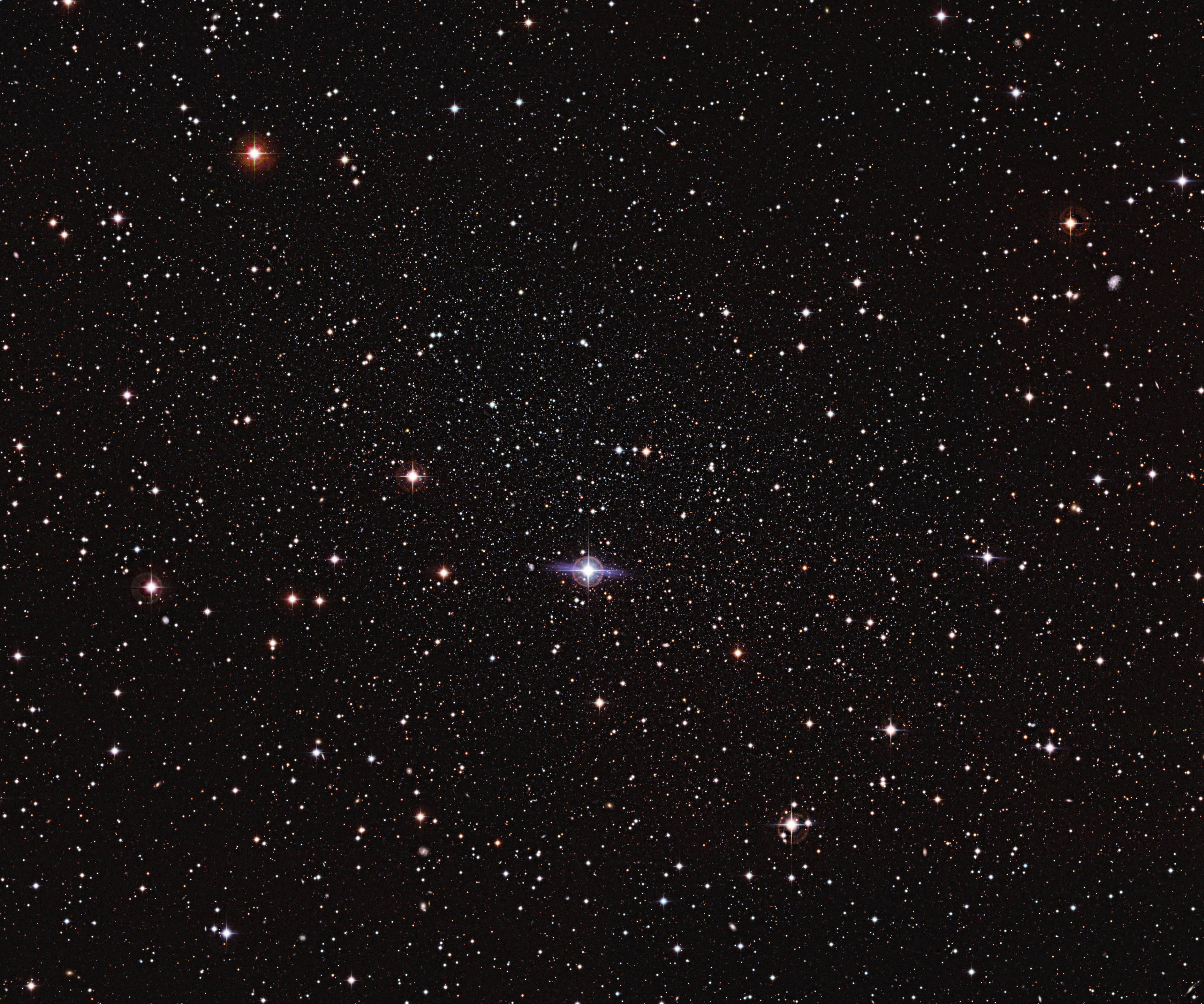 It’s one of the closest galaxies to Earth, but the Carina Dwarf Galaxy is so dim and diffuse that astronomers only discovered it in the 1970s. A companion galaxy of the Milky Way, this ball of stars shares features with both globular star clusters and much larger galaxies. Astronomers believe that dwarf spheroidal galaxies like the Carina Dwarf are very common in the Universe, but they are extremely difficult to observe. Their faintness and low star density mean that it is easy to simply see right through them. In this image, the Carina Dwarf appears as many faint stars scattered across most of the central part of the picture. It is hard to tell apart stars from the dwarf galaxy, foreground stars within the Milky Way and even faraway galaxies that poke through the gaps: the Carina Dwarf is a master of cosmic camouflage. The Carina Dwarf’s stars show an unusual spread of ages. They appear to have formed in a series of bursts, with quiet periods lasting several billion years in between them. It lies around 300 000 light-years from Earth, which places it further away than the Magellanic Clouds (the nearest galaxies to the Milky Way), but significantly closer to us than the Andromeda Galaxy, the closest spiral galaxy. So, despite being small for a galaxy, its proximity to Earth means that the Carina Dwarf appears quite large in the sky, just under half the size of the full Moon — albeit very much fainter. This makes it fit comfortably within the field of view of ESO’s Wide Field Imager, an instrument designed for making observations of large parts of the sky. Although this image in itself is not so striking, it is likely the best image of the Carina Dwarf Galaxy to date. The image was made using observations from the Wide Field Imager on the MPG/ESO 2.2-metre telescope at La Silla, and from the Victor M. Blanco 4-metre telescope at the Cerro Tololo Inter-American Observatory.